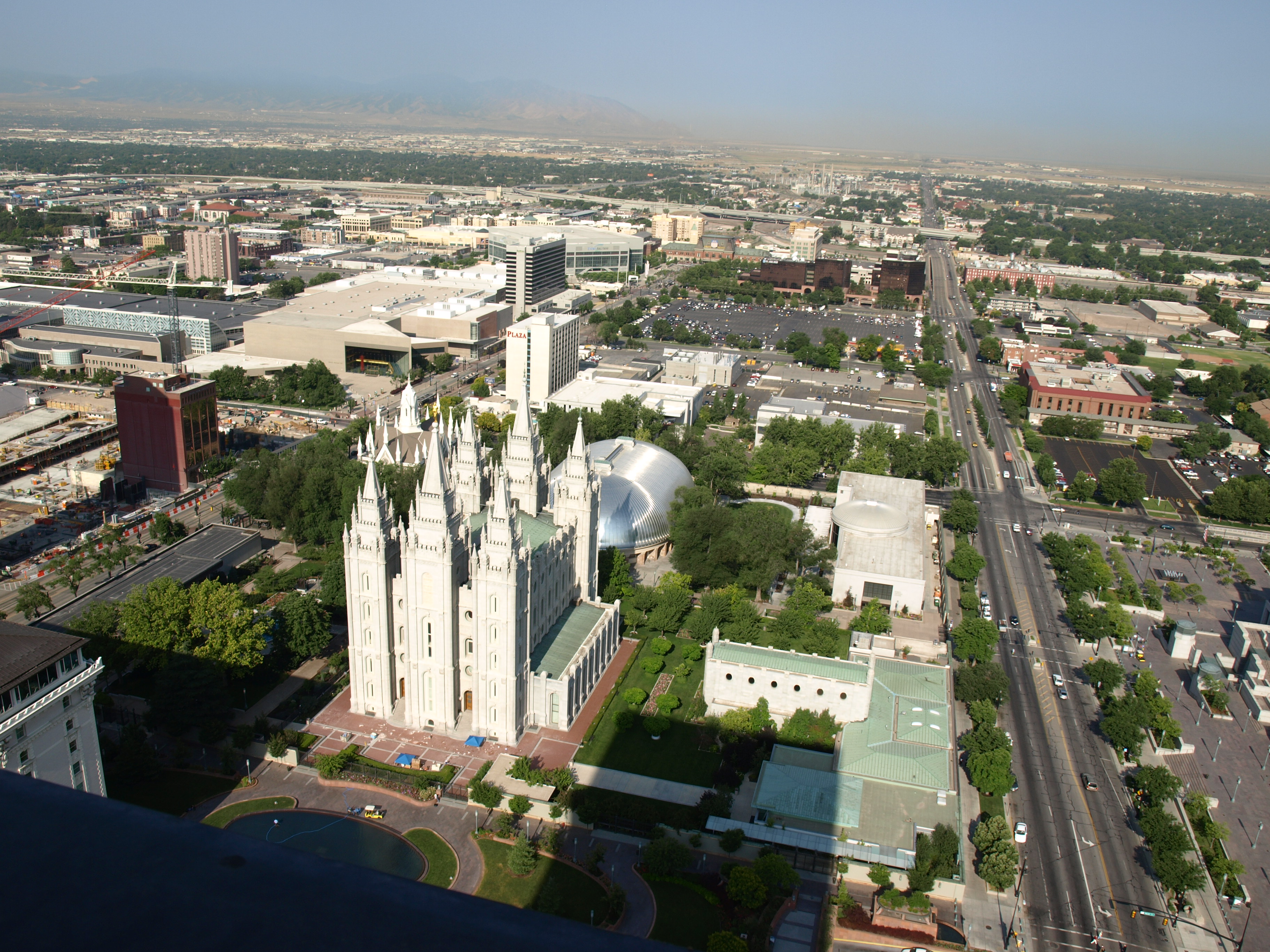 Temple Square in Salt Lake City, Utah, USA